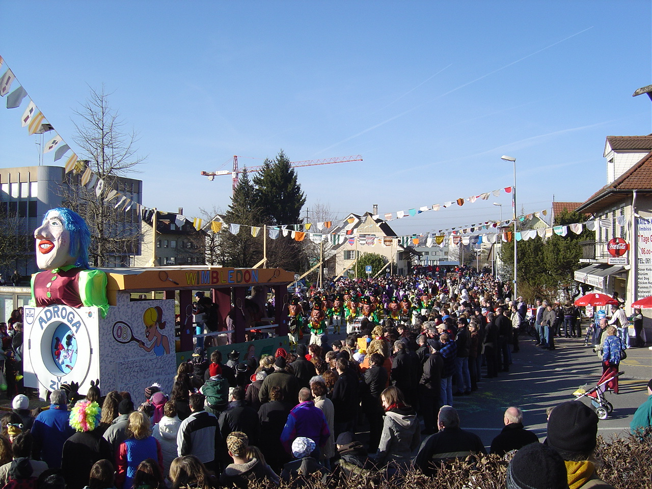 The traditional carnival parade in Möhlin